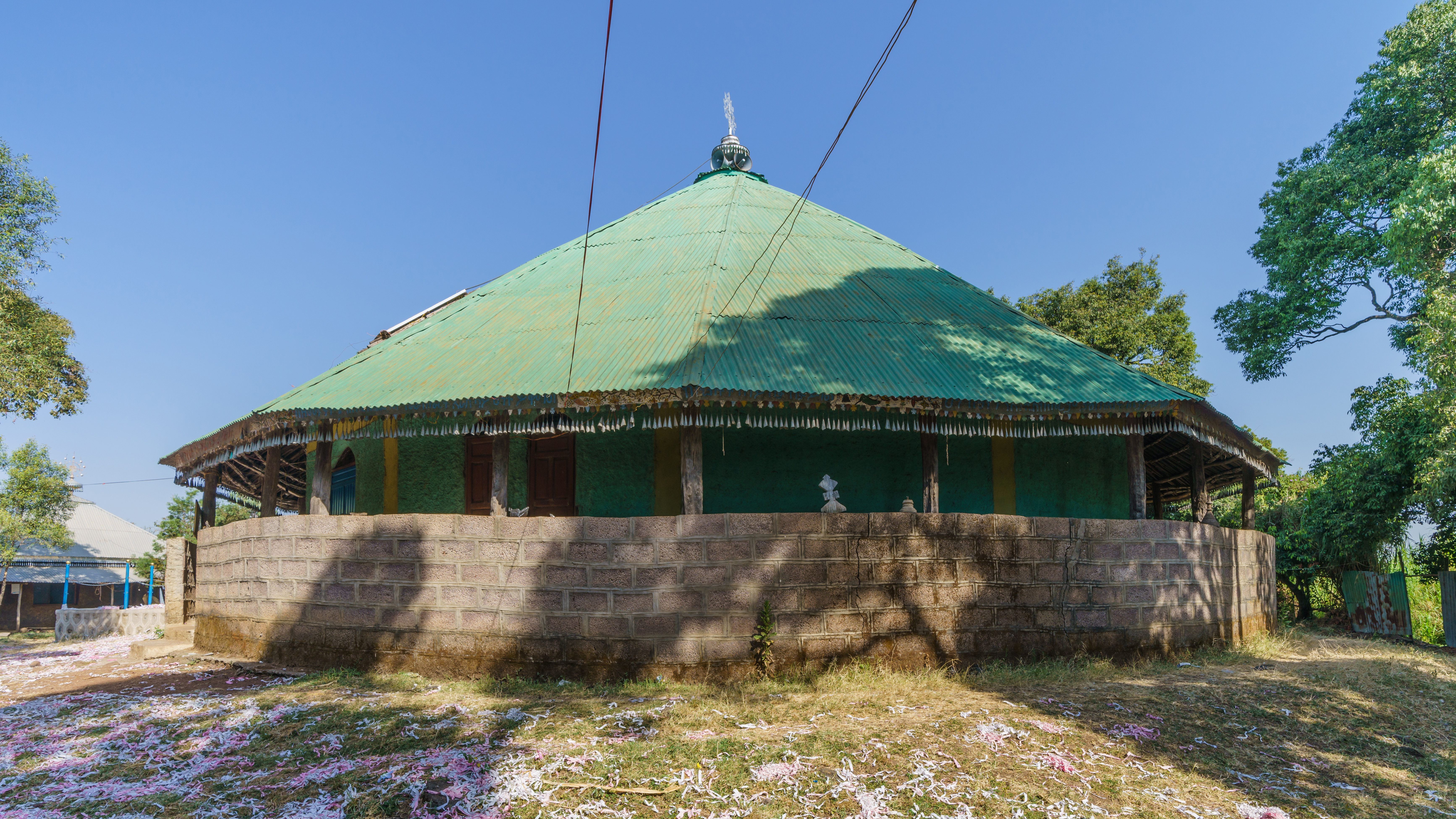 Debre Mariam Monastery – Lake Tana near Bahir Dar, Ethiopia